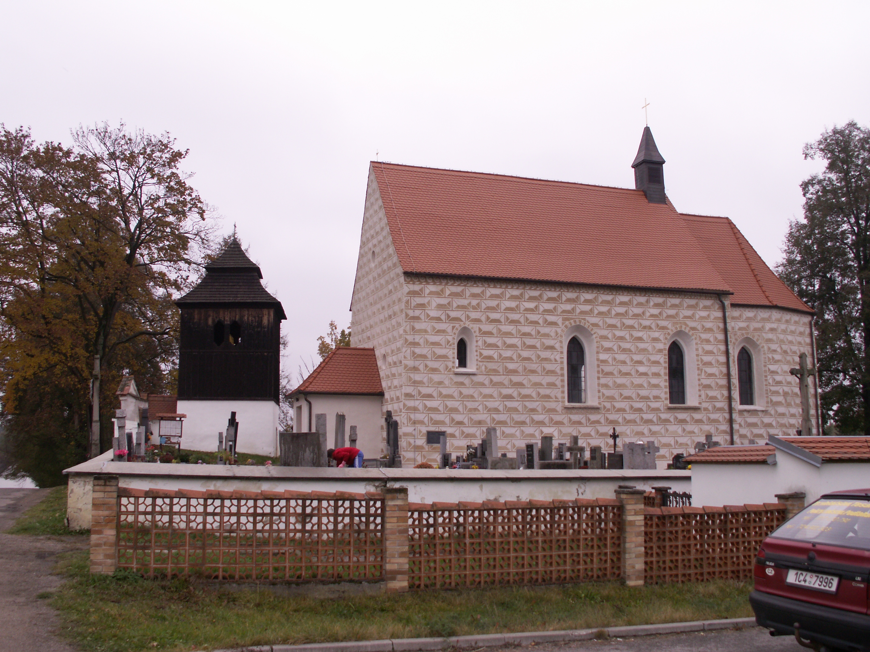 Hamr (Val), okres Tábor, renesanční kostel Nejsvětější trojice z roku 1581 od Albrechta Valovského z Úsuší